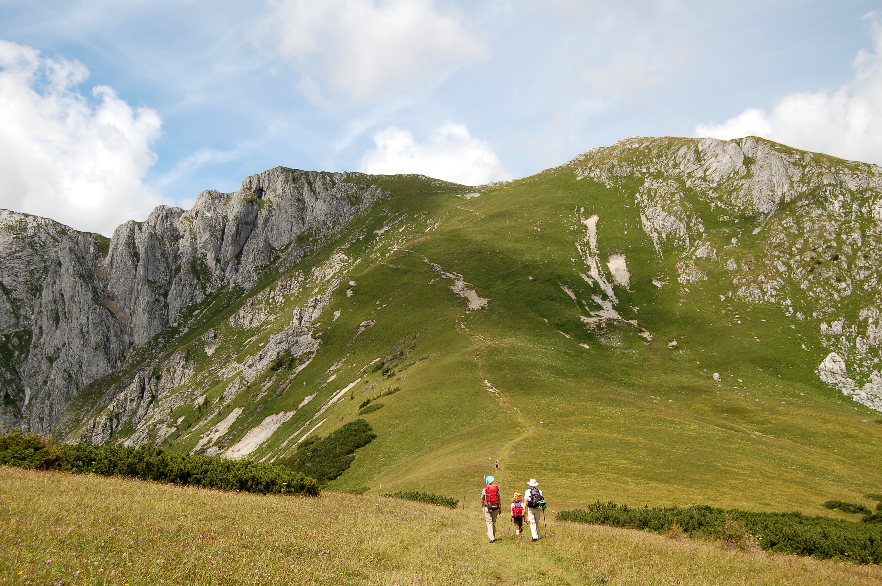 Zlackensattel 1743m against Mitteralpe, viewing direction NW, Hochschwab mountain range, Styria, Austria